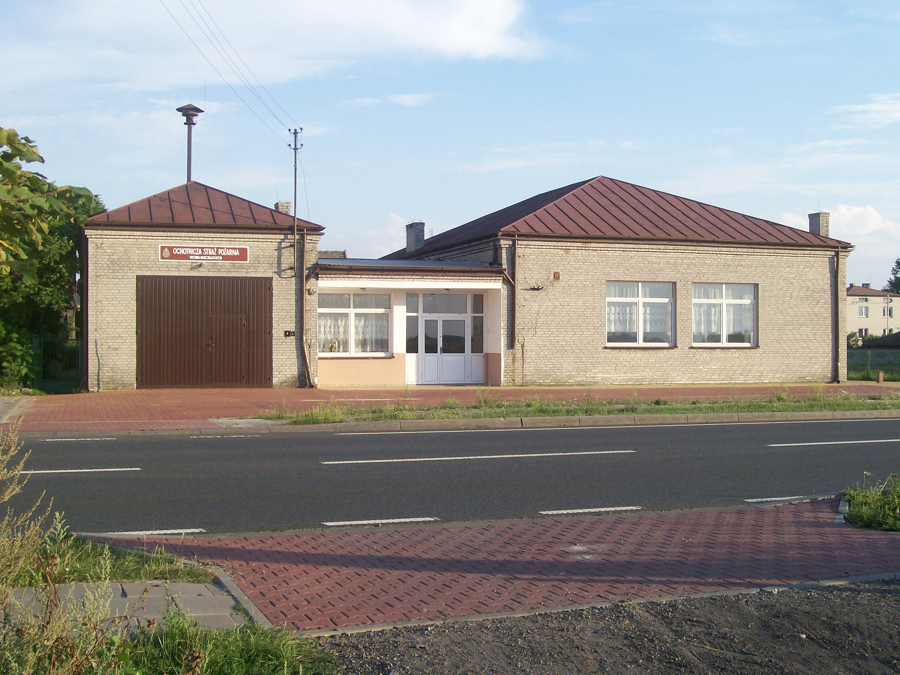 Fire station in Sieniec